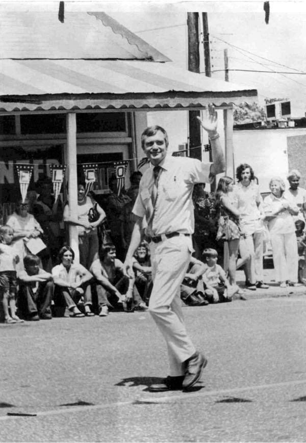 Lawton Chiles walking during his 1970 U.S. Senate campaign in Florida